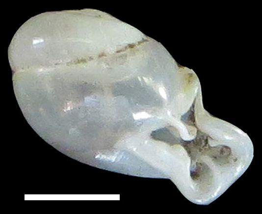 Photo of an apertural view of a shell of holotype of Perrottetia hongthinhae (holotype, VNMN_IZ 000.000.153). Locality: Vietnam, Lai Chau Province, Nam Loong Commune, Lai Chau City, 22°25’16”N, 103°22’25”E, 1,226 m; 12.07.2015). Scale bar is 2 mm.